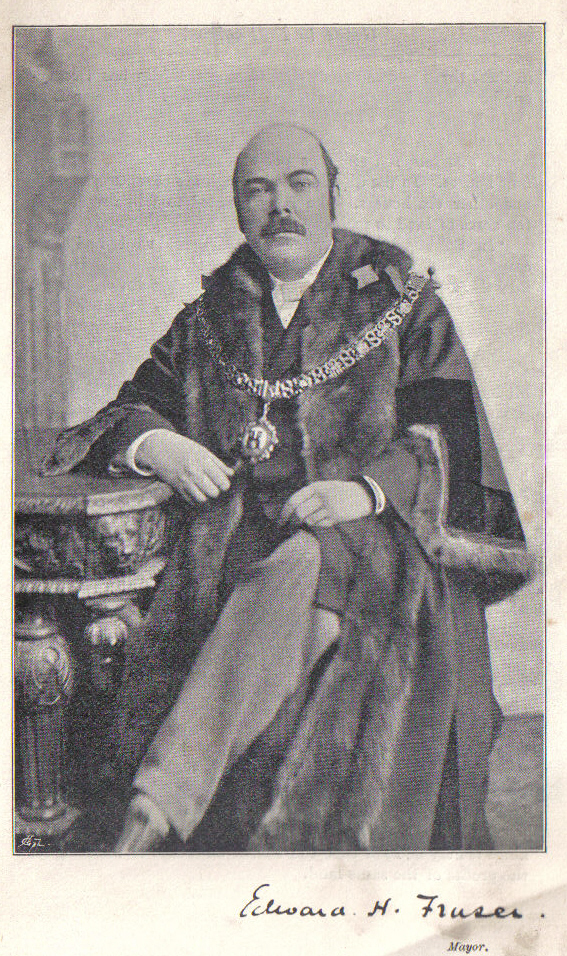 Edward H Fraser, Mayor of Nottingham from the Illustrated Guide to the Church Congress 1897